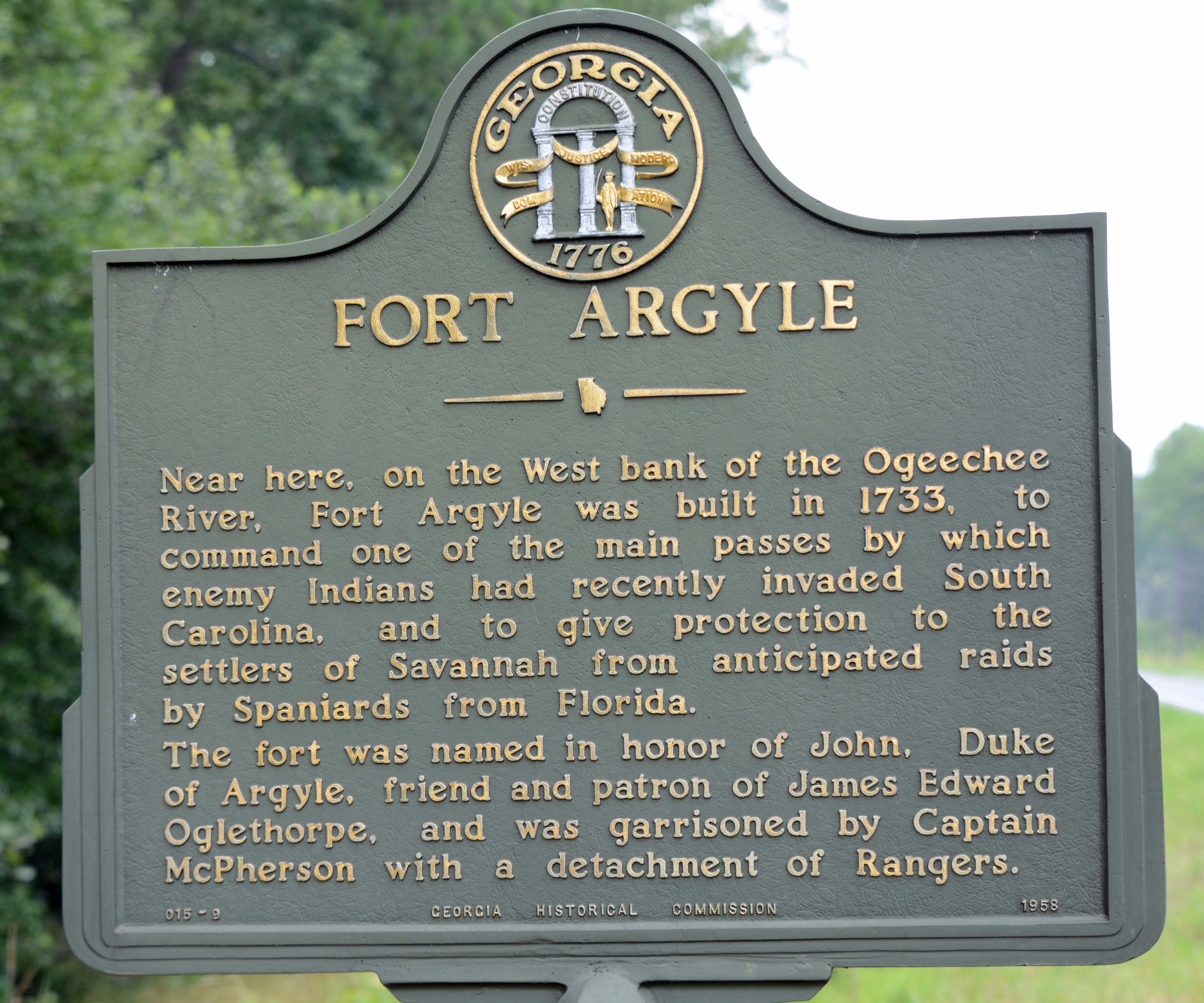 Historical marker for Fort Argyle. The sign is on a public road in Fort Stewart, Georgia 144, 4.2 miles west of the intersection with US 17. The coordinates of the sign: 31.97279N, 81.377093W.